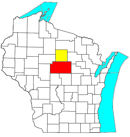 Locator map of the Wausau-Merrill Combined Statistical Area in the central part of the U.S. state of Wisconsin. The two components of the CSA are colored separately: Wausau Metropolitan Statistical Area: red Merrill Micropolitan Statistical Area: yellow